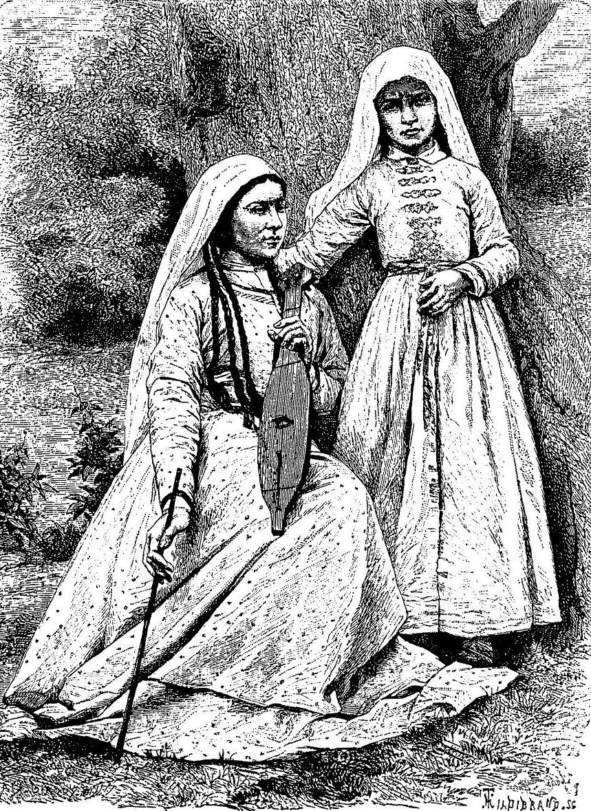 Women of Zugdidi. Engraved by Henri Theophile Hildibrand from a photography. Published in 1884.